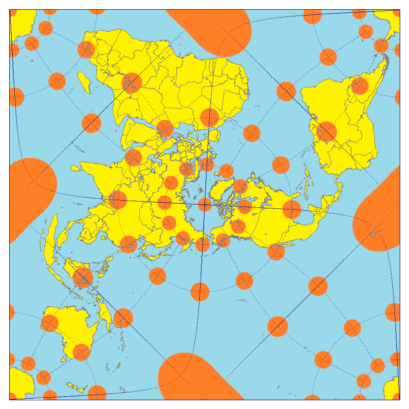 Peirce quincuncial projection with Tissot's indicatrix. Meridians are slightly rotated, so 4 indicatrices containing singular points are very distorted.